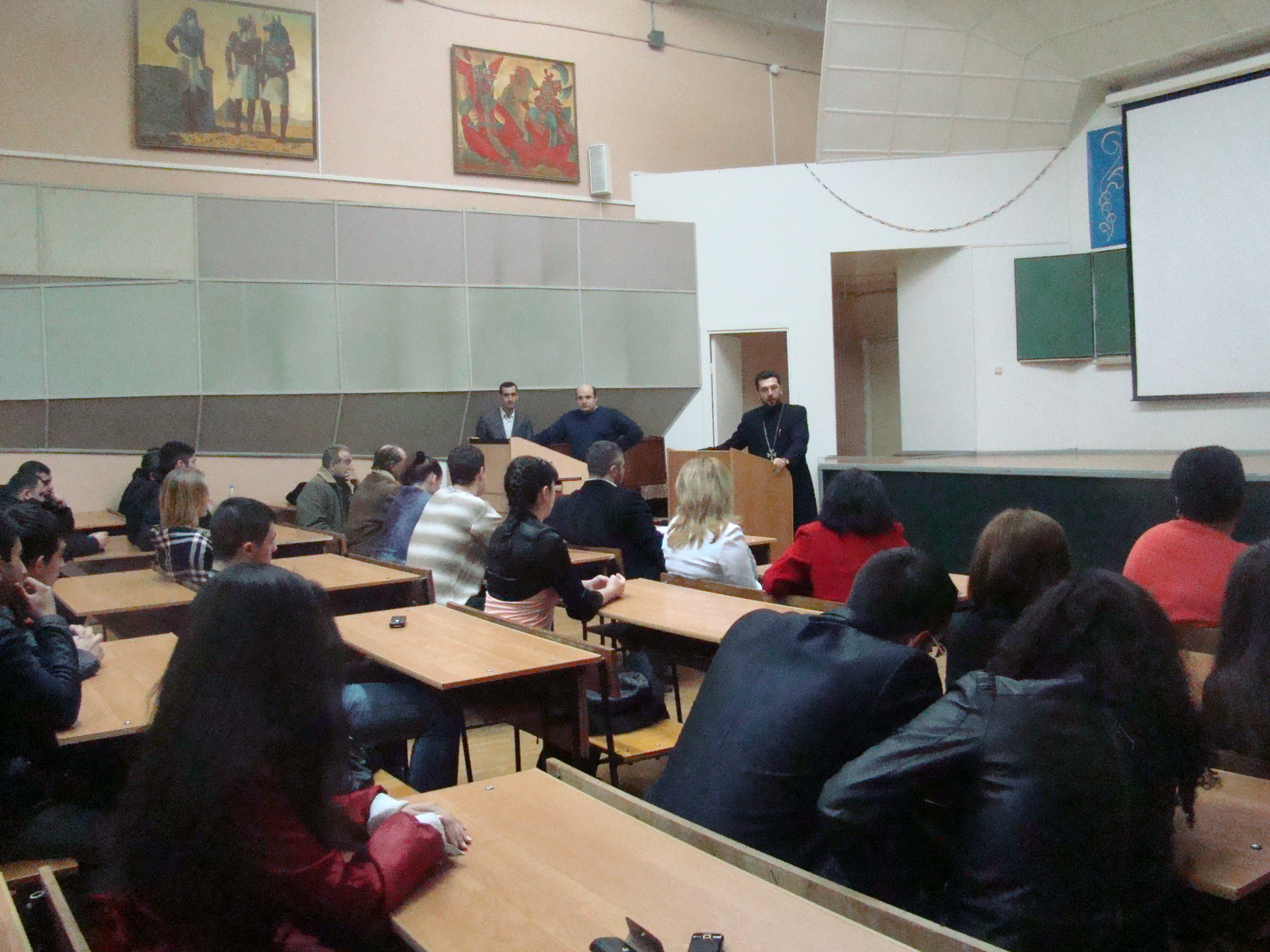 Sourb Gevorg Activity